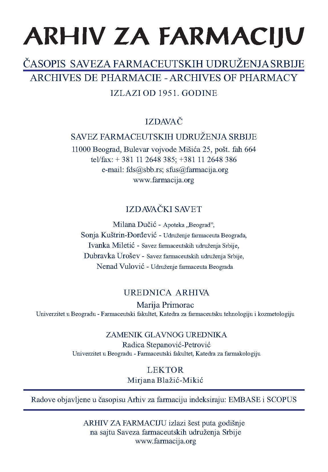 Scientific journal of Serbia Arhiv za farmaciju, 2013, published by Pharmaceutical Association of Serbia, Belgrade, Serbia